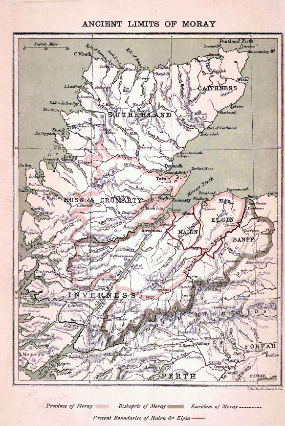 Taken from A History of Moray and Nairn by Charles Rampini, Edinburgh, 1897, p. facing title page